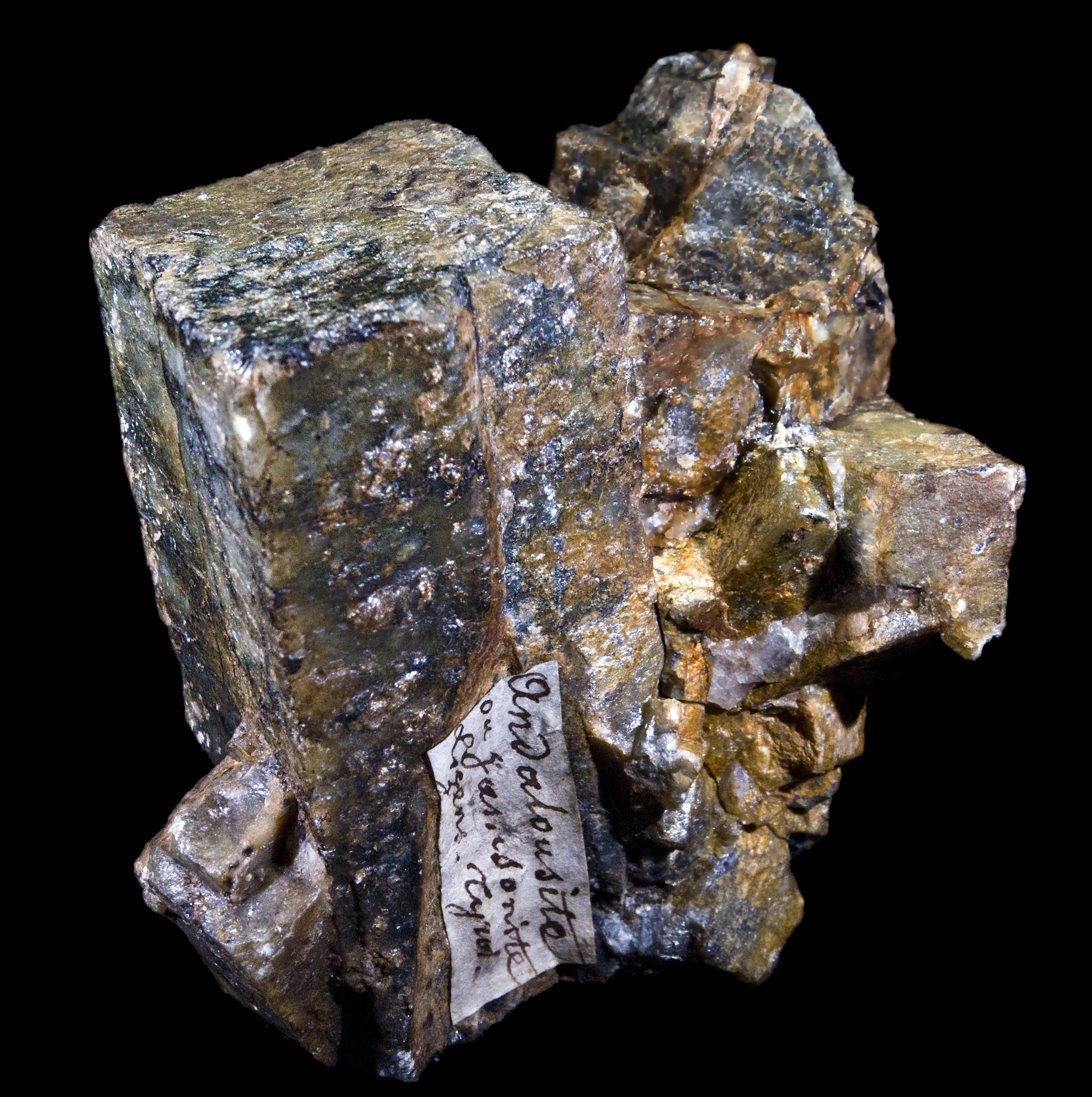 Andalusite Locality : Lüsens valley, Sellrain valley, North Tyrol, Tyrol, Austria Size : 7.4x6.2cm